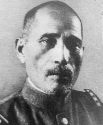 General Hishikari Takashi (1871-1952)